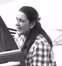 Amrita Singh snapped in Andheri